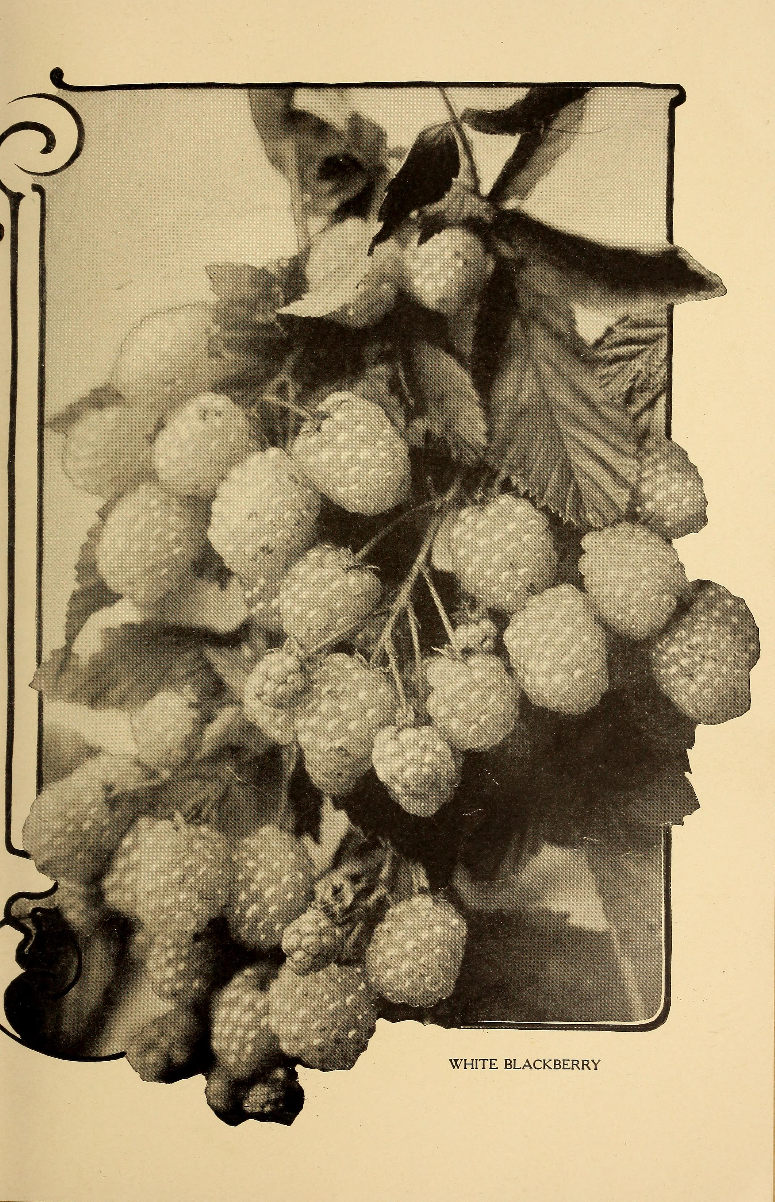 Title: Complimentary banquet in honor of Luther Burbank Year: 1905 (1900s) Authors: California. State board of trade. (from old catalog) Subjects: Burbank, Luther, 1849-1926; Plant breeding Publisher: (Speeches. San Francisco) Text Appearing Before Image: ' Text Appearing After Image: '